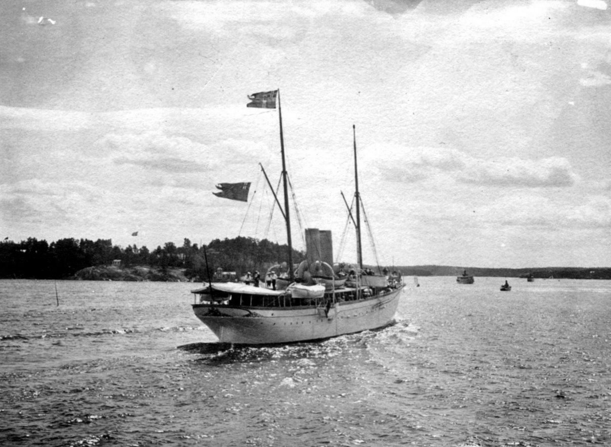 Royal Wwedish yacht HMS Drott, used by King Oscar II.